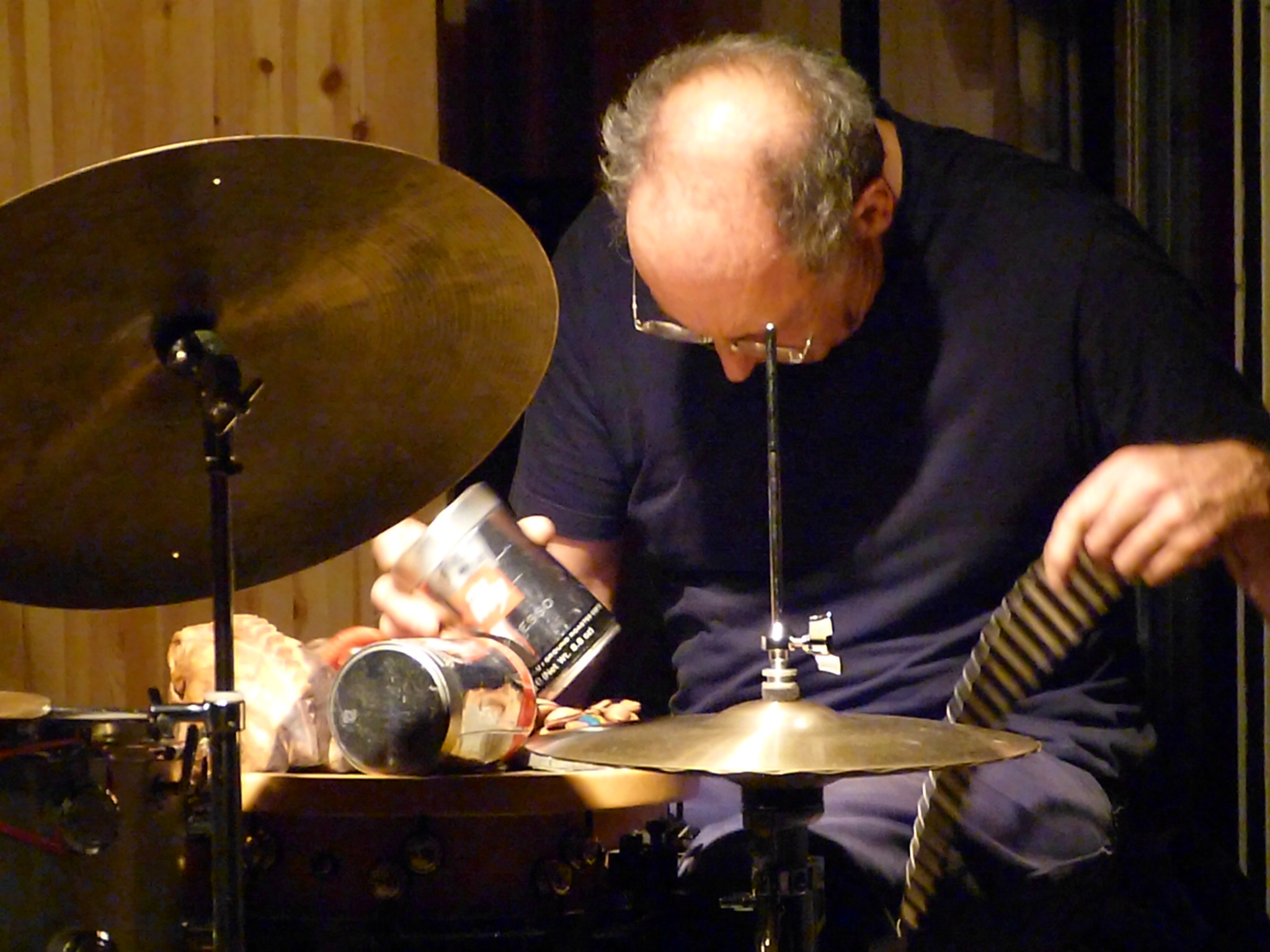 Paul Lytton in concert with Ingrid Laubrock, Robert Landfermann and Achim Kaufmann at Loft Cologne, Germany, December 8th, 2012